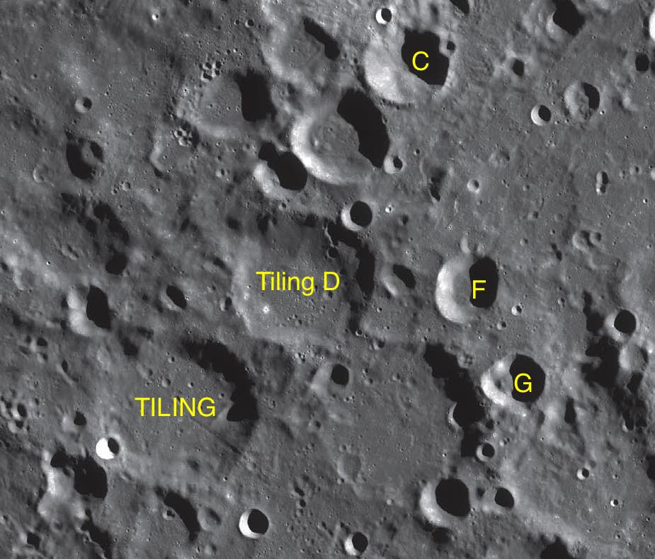 Part of the chart LAC-134 used for the presentation.